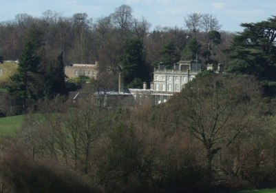 Saint Hill Manor looking west, near East Grinstead, England